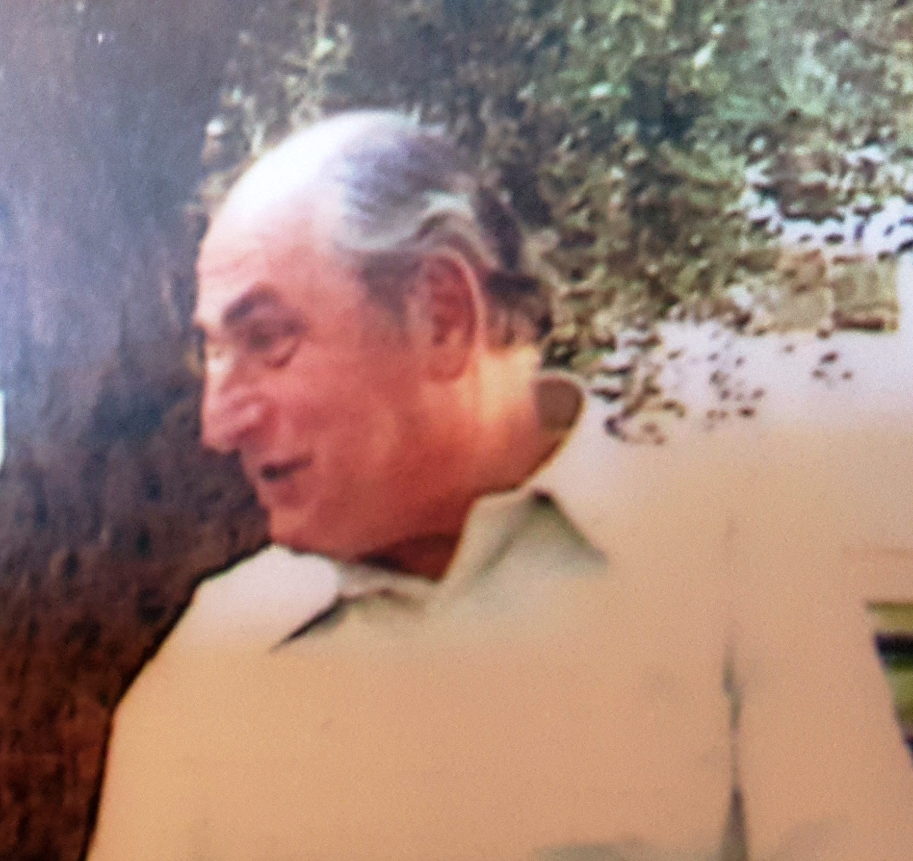 Moshe Amirav and Faisal Husseini